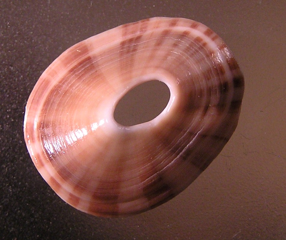 Macroschisma tasmaniae (Sowerby, 1862); a keyhole limpet from the family Fissurellidae; Tasmania